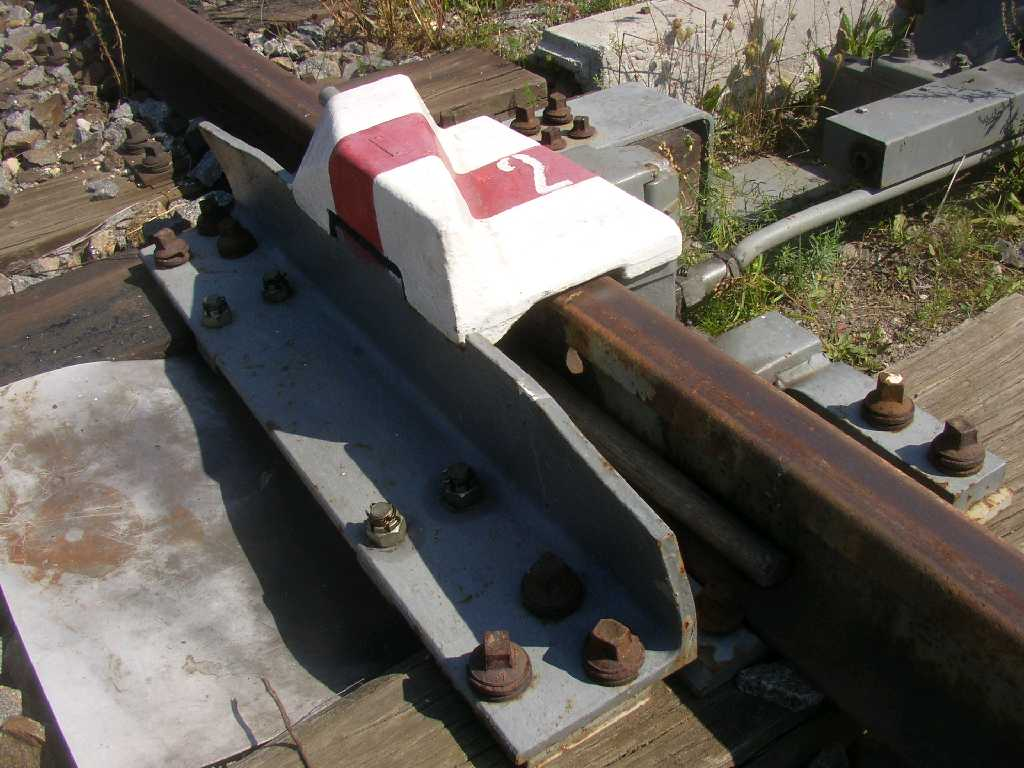 Photo taken by Miaow Miaow in September 2005